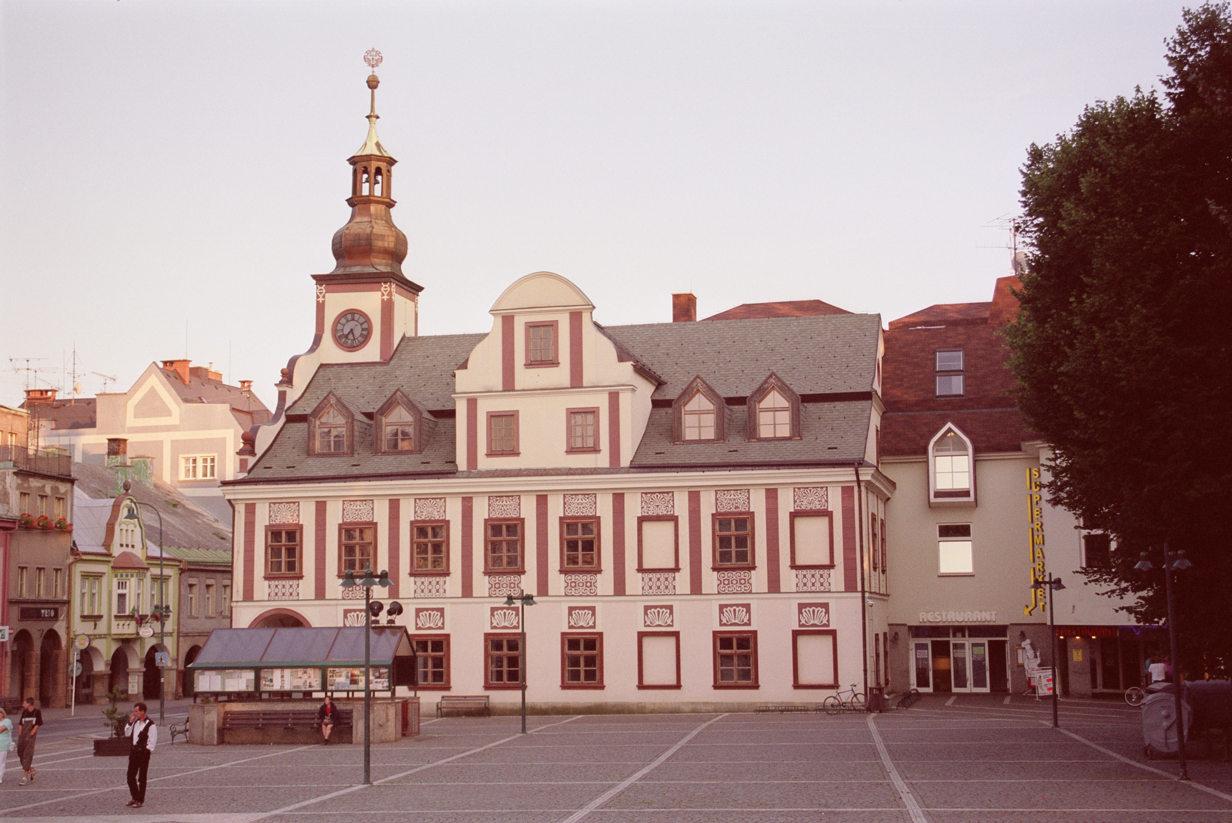 Vrchlabí - town in the Czech Republic in Karkonosze self taken picture, taken in summer 1998 shows part of the city, main place